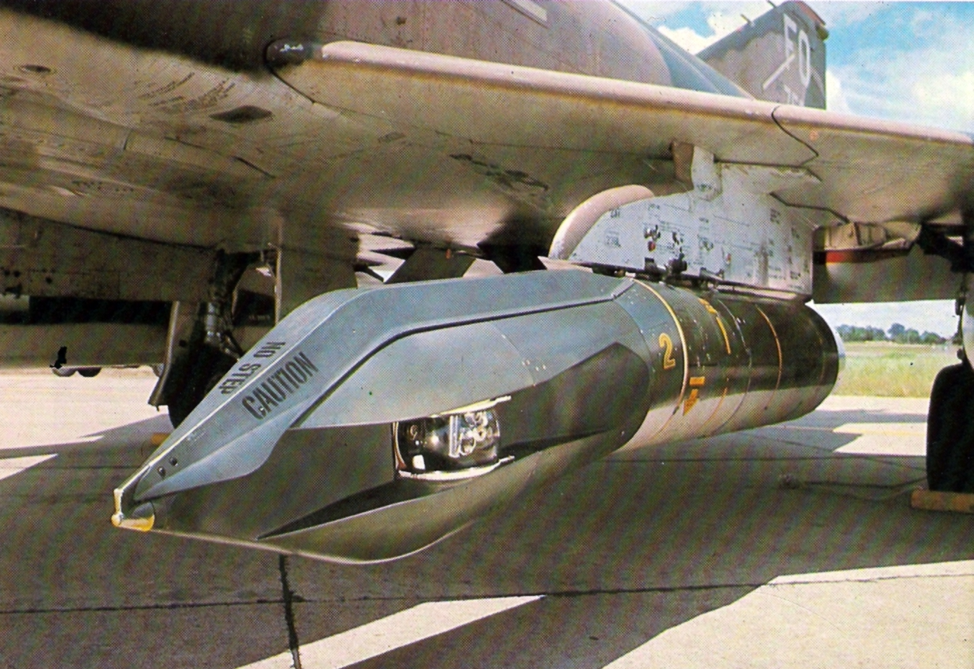 A U.S. Air Force McDonnell F-4D Phantom II from the 435th Tactical Fighter Squadron, 8th Tactical Fighter Wing, at Ubon Royal Thai Air Force Base, in 1973. The aircraft carries a "Pave Knife" laser targeting pod on the underwing station.